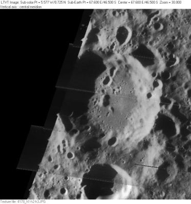 Peirescius lunar crater - image LO-IV-178H LTVT